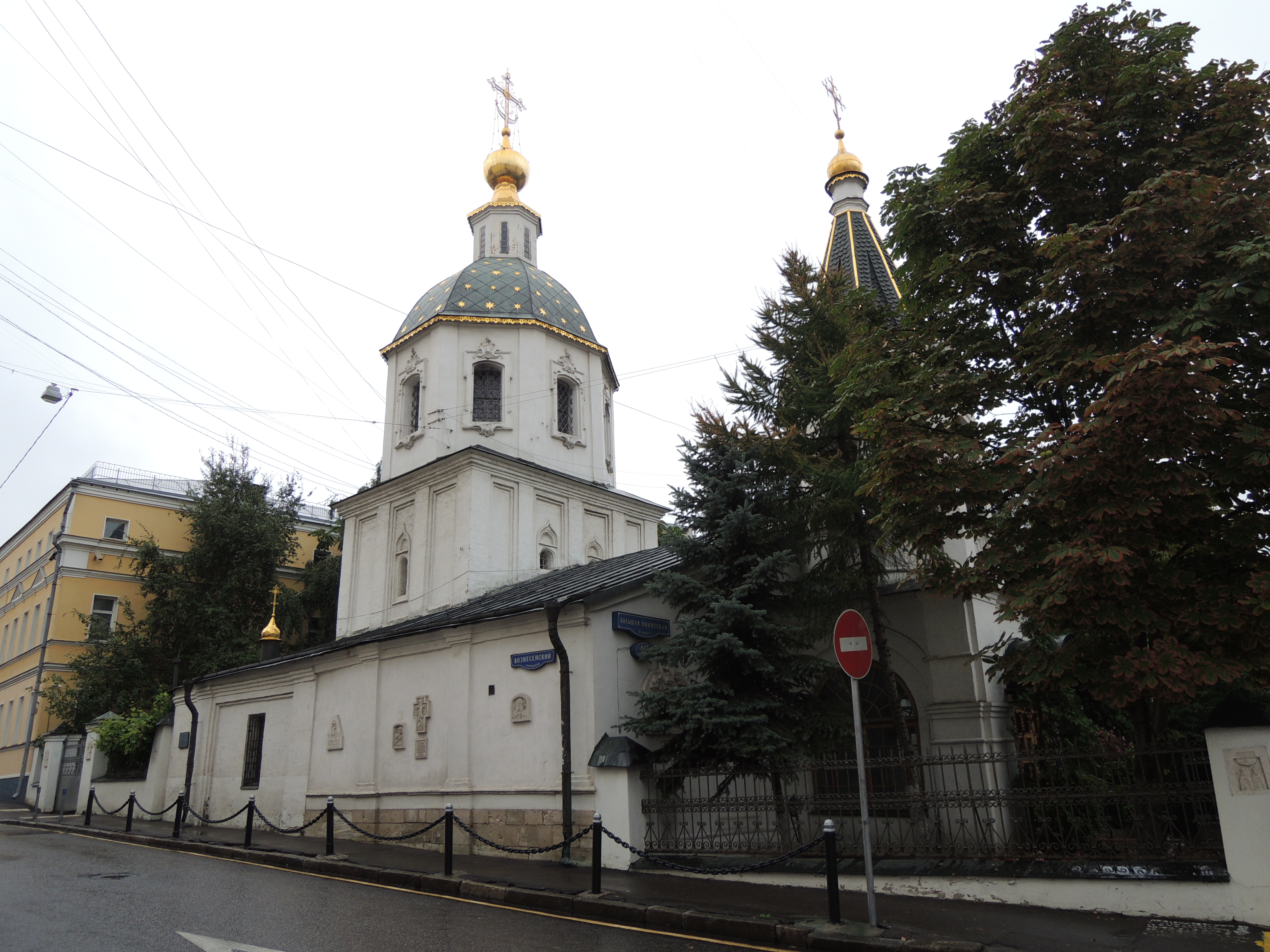 Church of the Lesser Ascension, Moscow